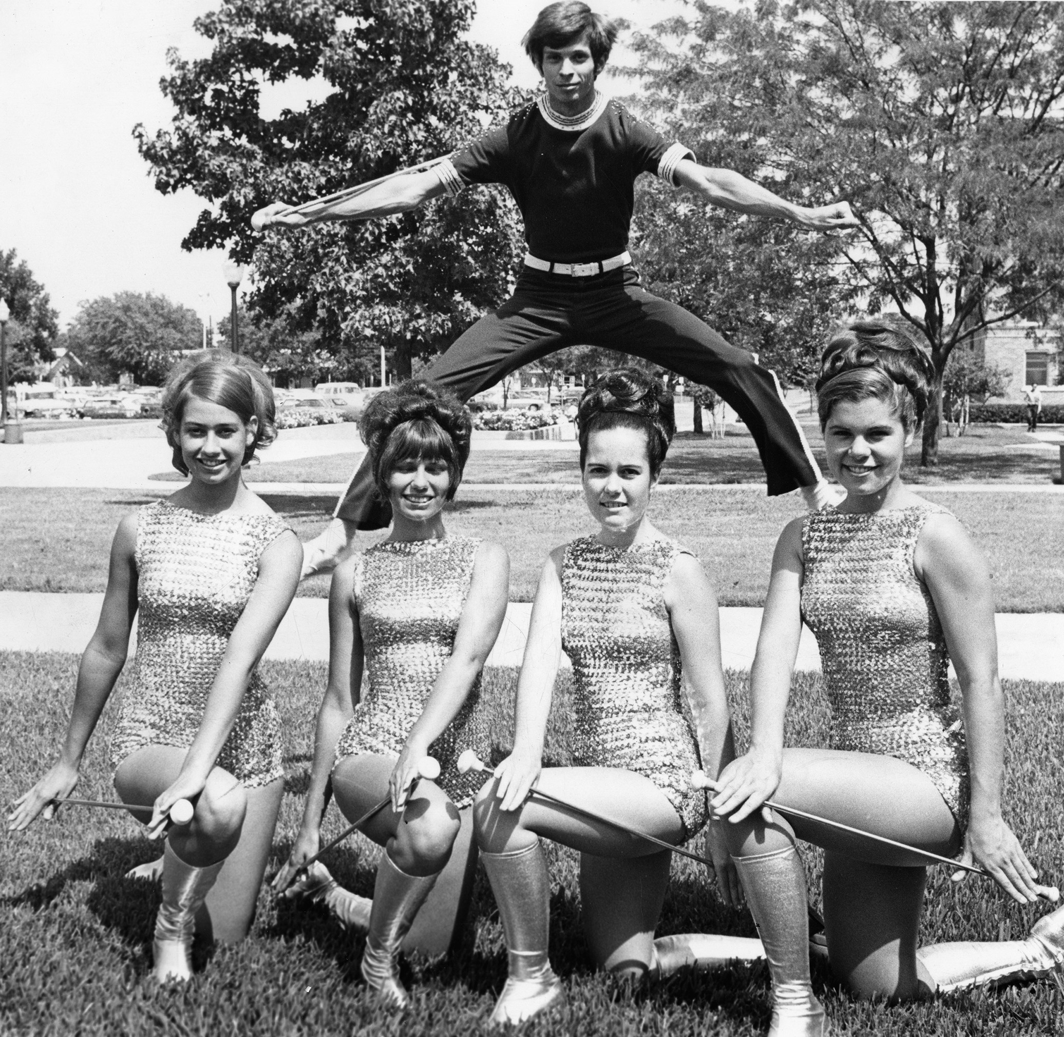 University of Texas at Arlington (U. T. A.) majorettes with "big hair".